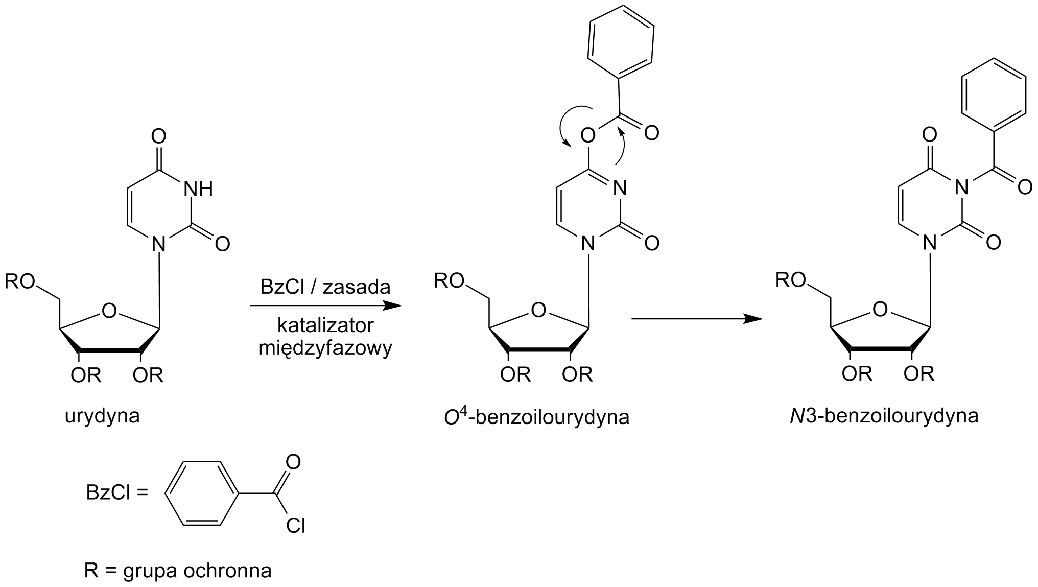 Benzoylation of uridine and subsequent Chapman rearrangement